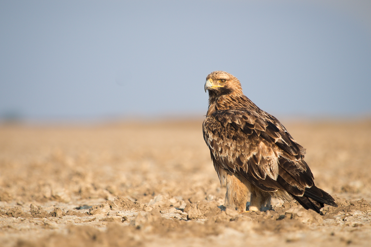 Juvenile moulting into adult plumage at the Little Rann of Kutch